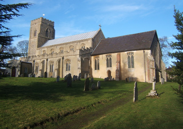 St Mary's parish church, Barking, Suffolk, seen from the southeast